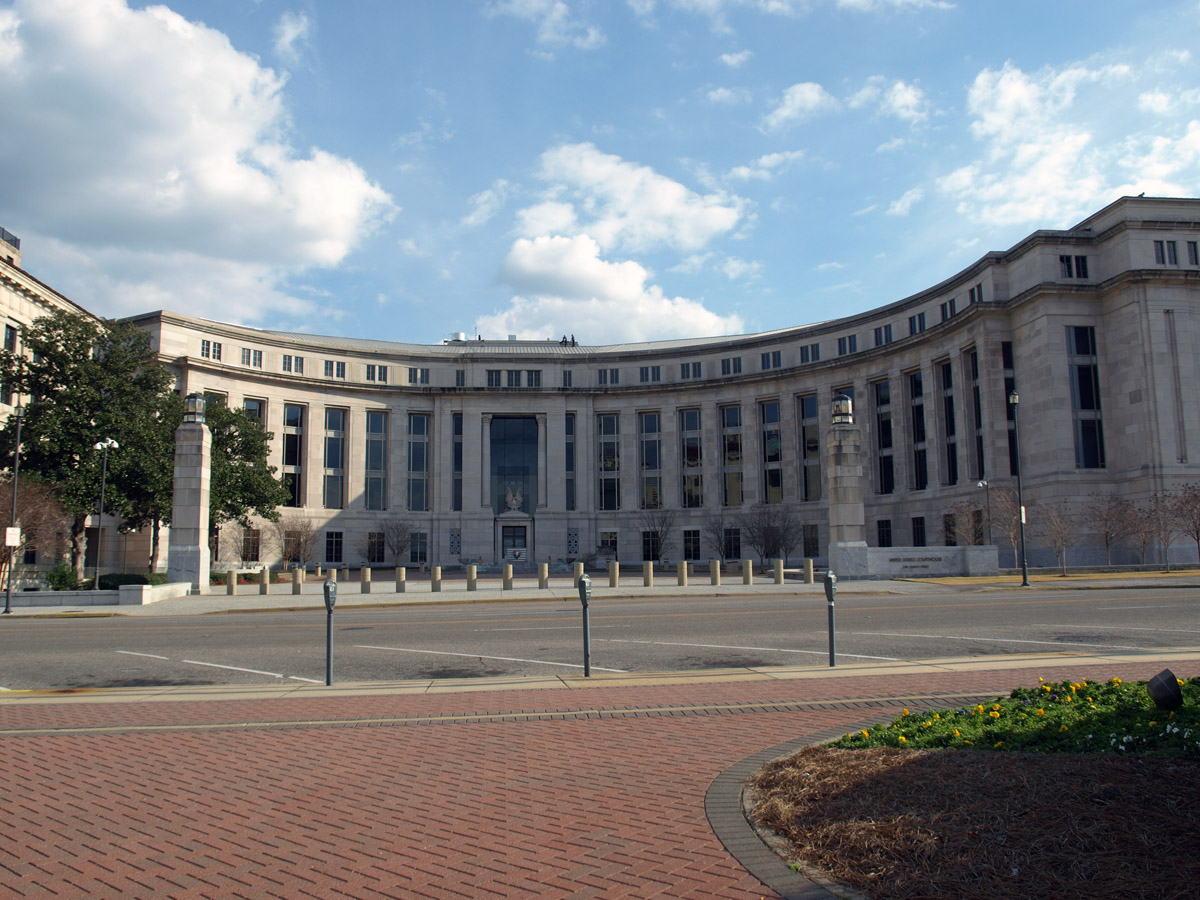 The annex to the Frank M. Johnson Federal Building and U.S. Courthouse in Montgomery, Alabama, located at 1 Church St.